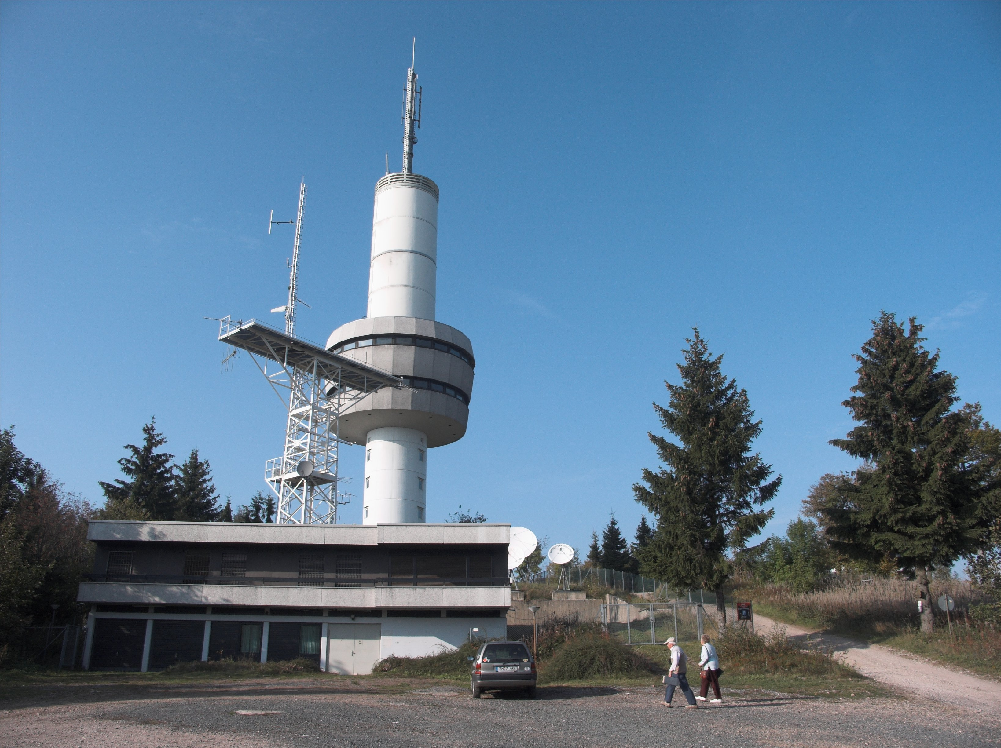 The top of the Ravensburg in the Harz mountains of Germany